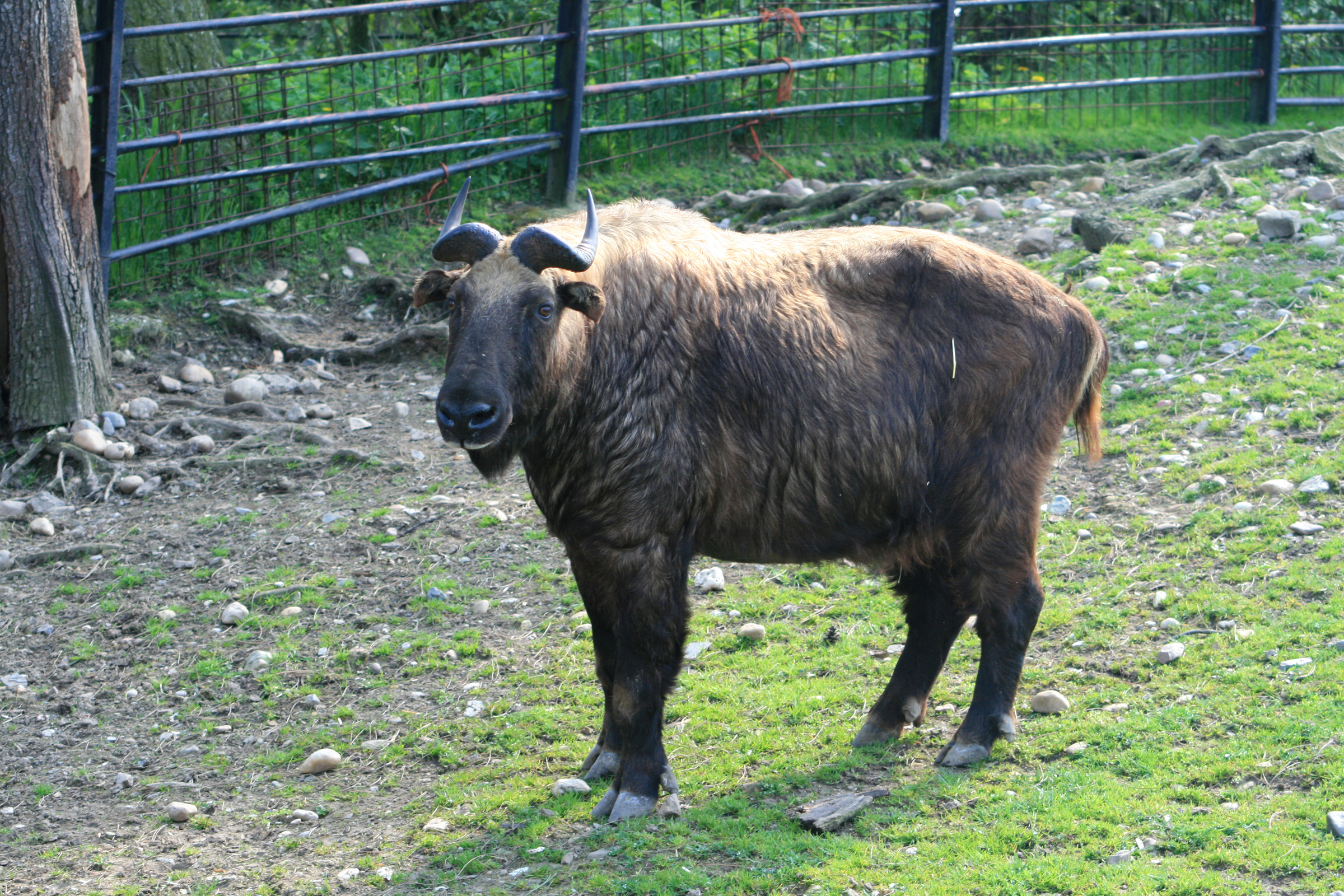 Mishi Takin in ZOO Praha, Czech Republic